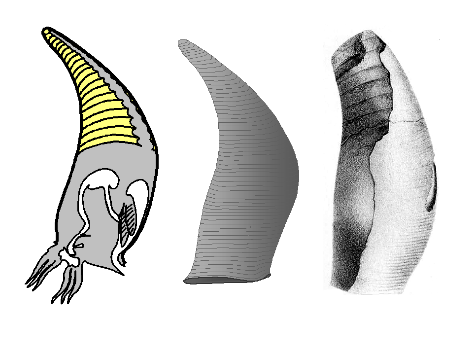 Schematic representation of a shell of the extinct nautiloid genus Oncoceras (Lower Paleozoic), and reconstruction in life position; an example of fossil Oncoceras (right)